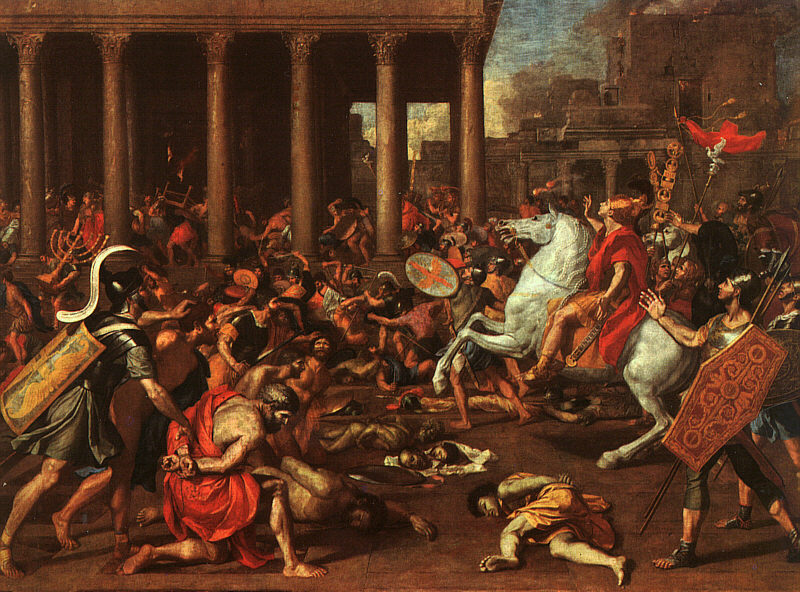 Conquest of Jerusalem by Titus